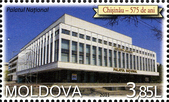 Stamps of Moldova